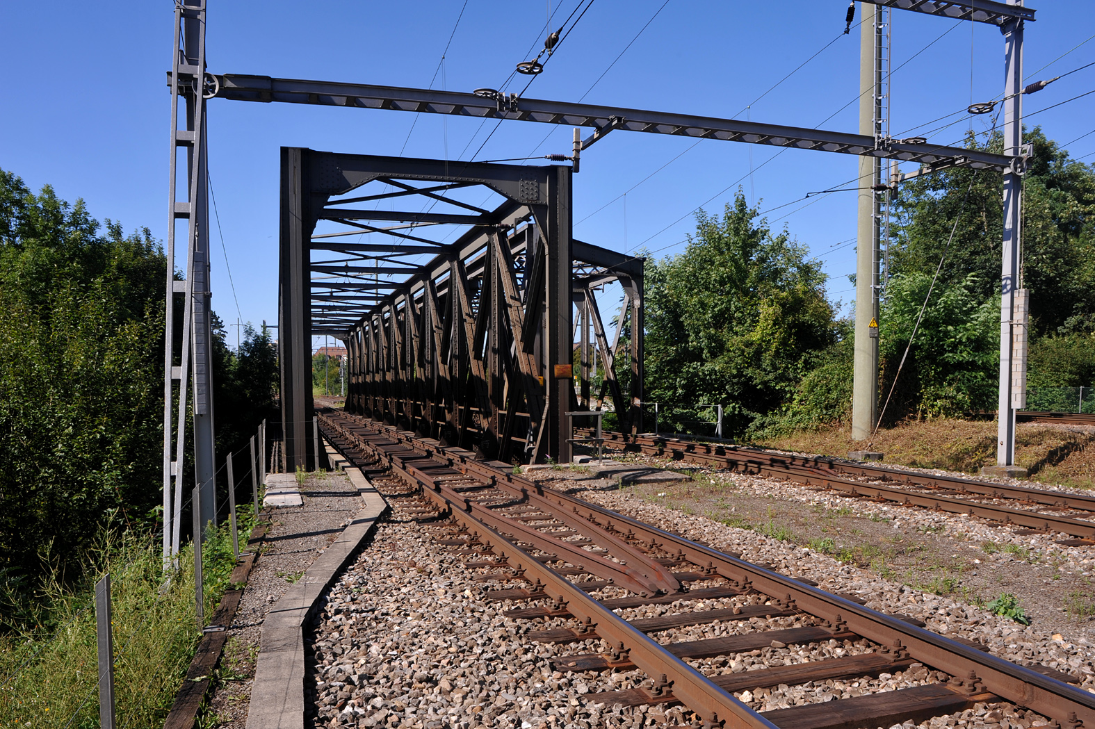 Railway bridge over the Birs in Münchenstein; Basel-Landschaft, Switzerland.